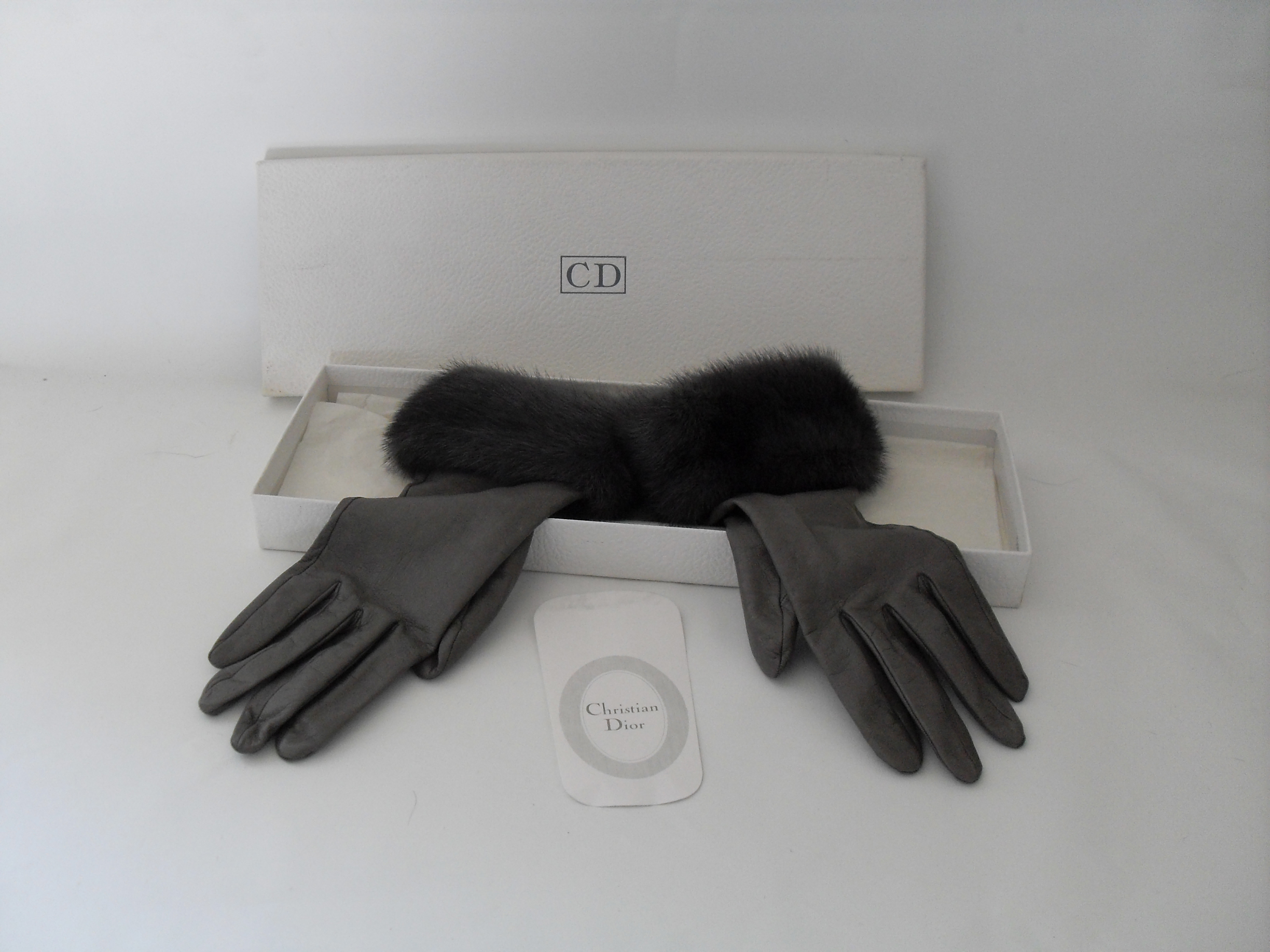 Pair of grey leather and fur gloves by Christian Dior, second half 20th century